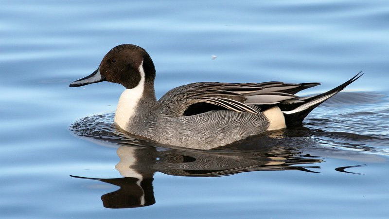 Northern Pintail (Anas acuta) This image was created by Ken Billington. If you are interested in a high resolution copy of this image, please contact the author Ken Billington in order to negotiate conditions of use. Do not copy this image illegally by ignoring the terms of the license below, as it is not in the public domain. If you would like special permission to use, license, or purchase the image please contact me to negotiate terms. More free images can be found on Ken Billington's Bird & Wildlife Photography.